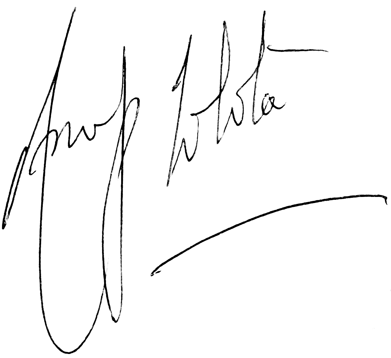 Autograph of Hindi Ghazal singer Anup Jalota